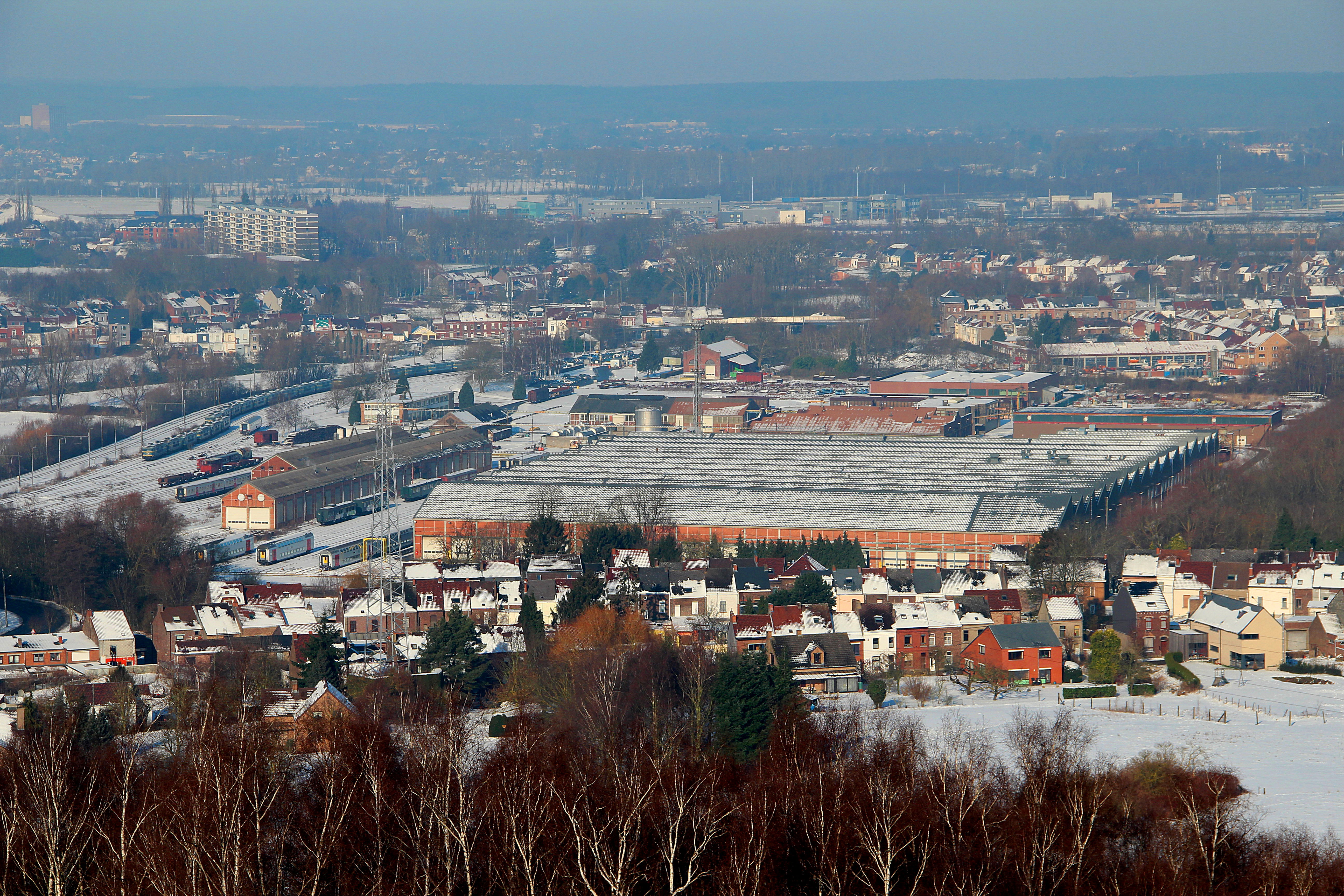 Cuesmes (Belgium), the arsenal of the National Society of Belgian Railways seen from the Mount Héribus.